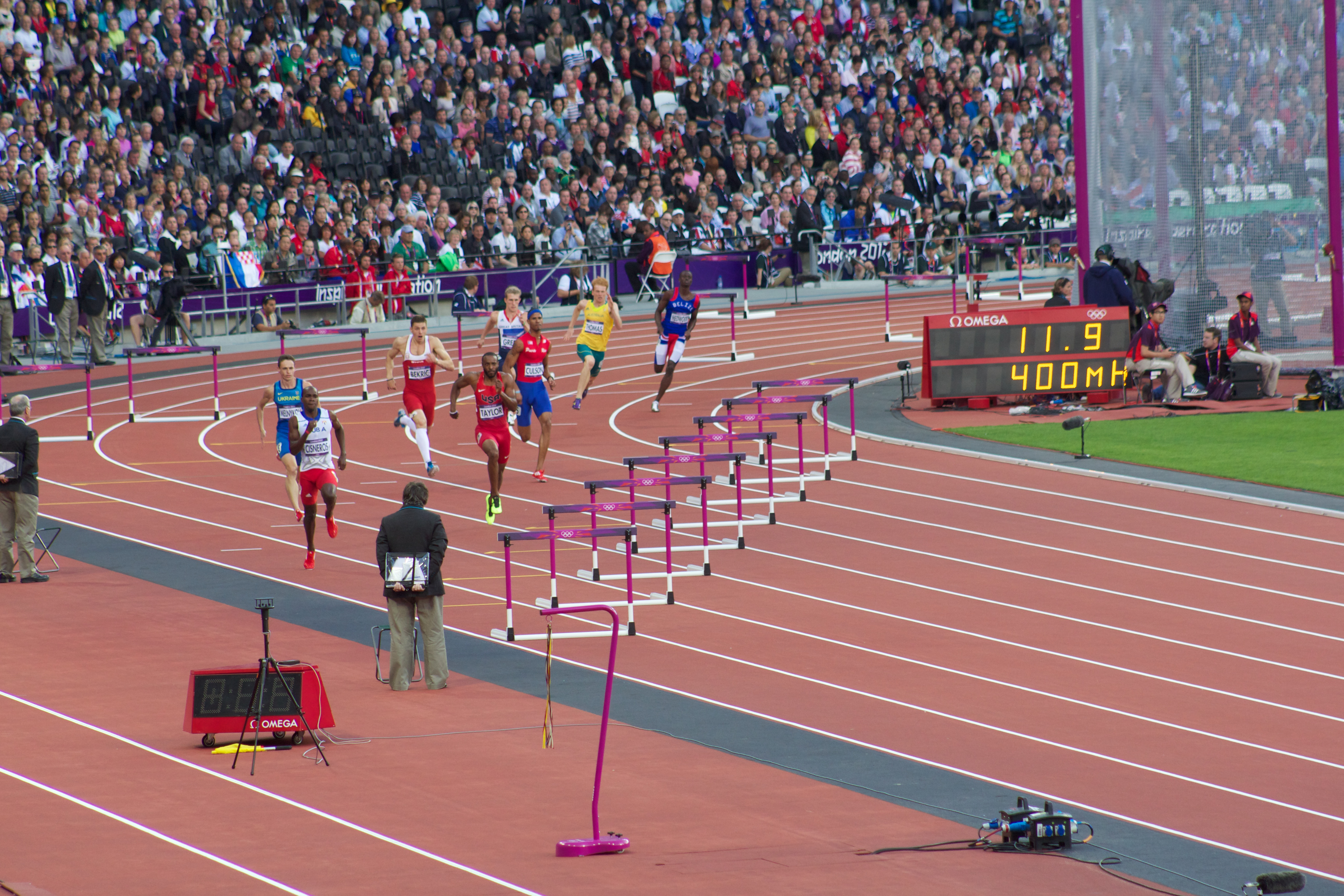 Men's 400m Hurdles Semifinals, rounding the first corner on the back straight, Stanislav Melnykov, Omar Cisneros, Emir Bekric, Angelo Taylor, Jack Green, Javier Culson, Tristan Thomas, Kenneth Medwood